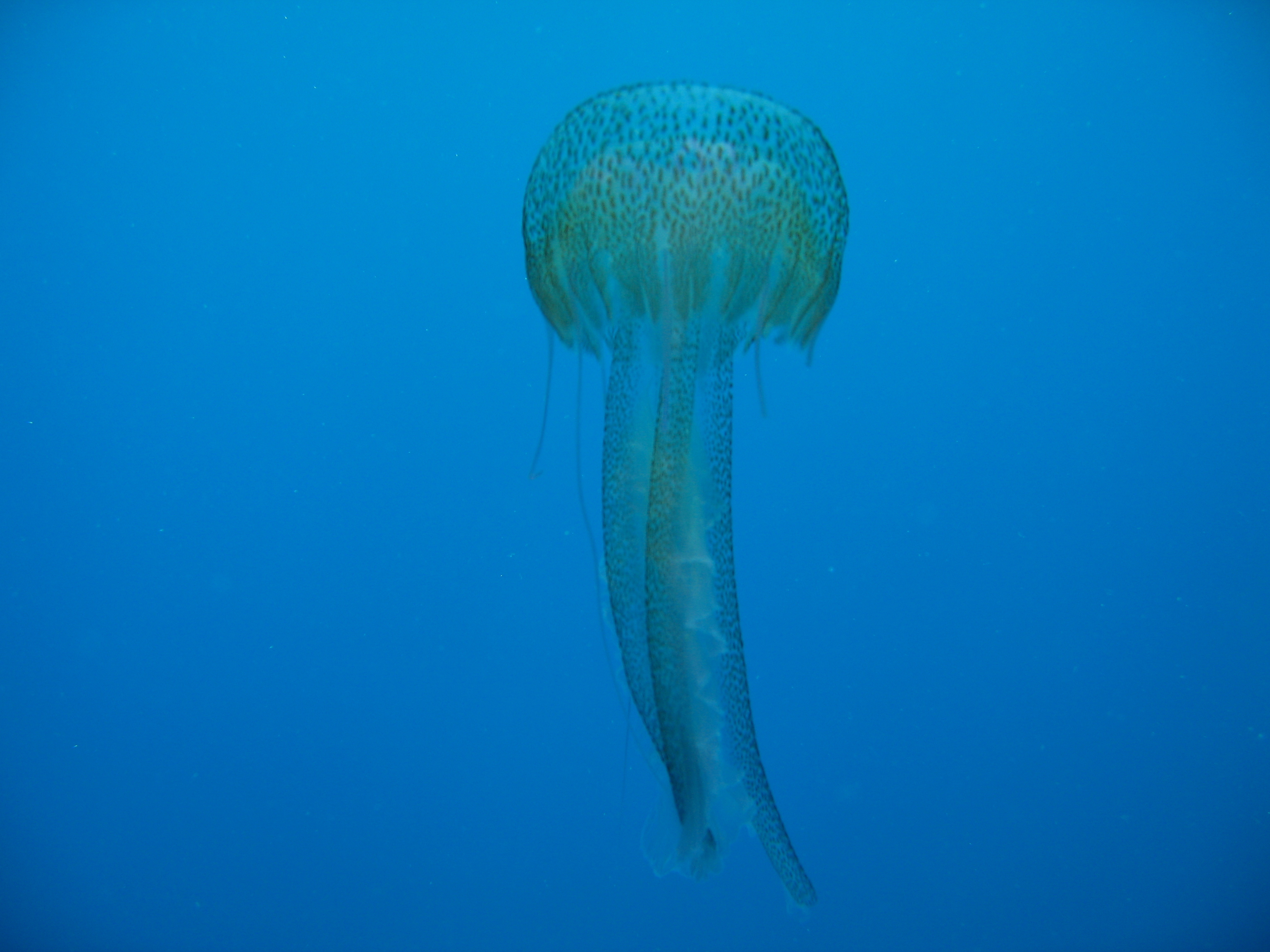 an image showing a jellyfish in Adriatic Sea.